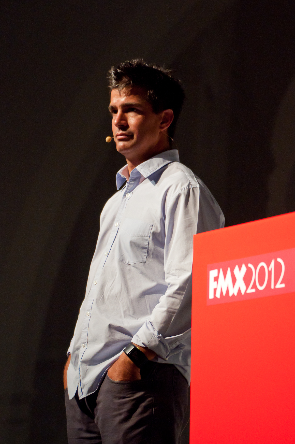 Loni Peristere, creative director and founder of Zoic Studios at FMX 2012. (Haus der Wirtschaft, Stuttgart, Germany)